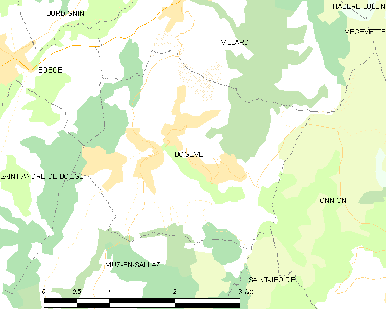 Map of French municipality Bogève